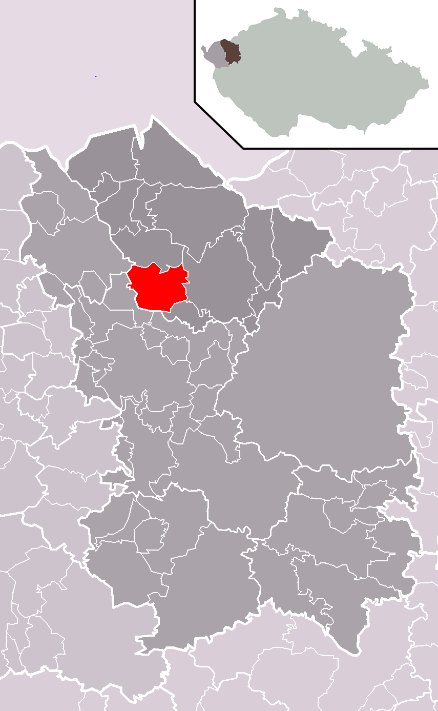 Location of Hroznětín town within Karlovy Vary District and administrative area of Ostrov as a Municipality with Extended Competence.